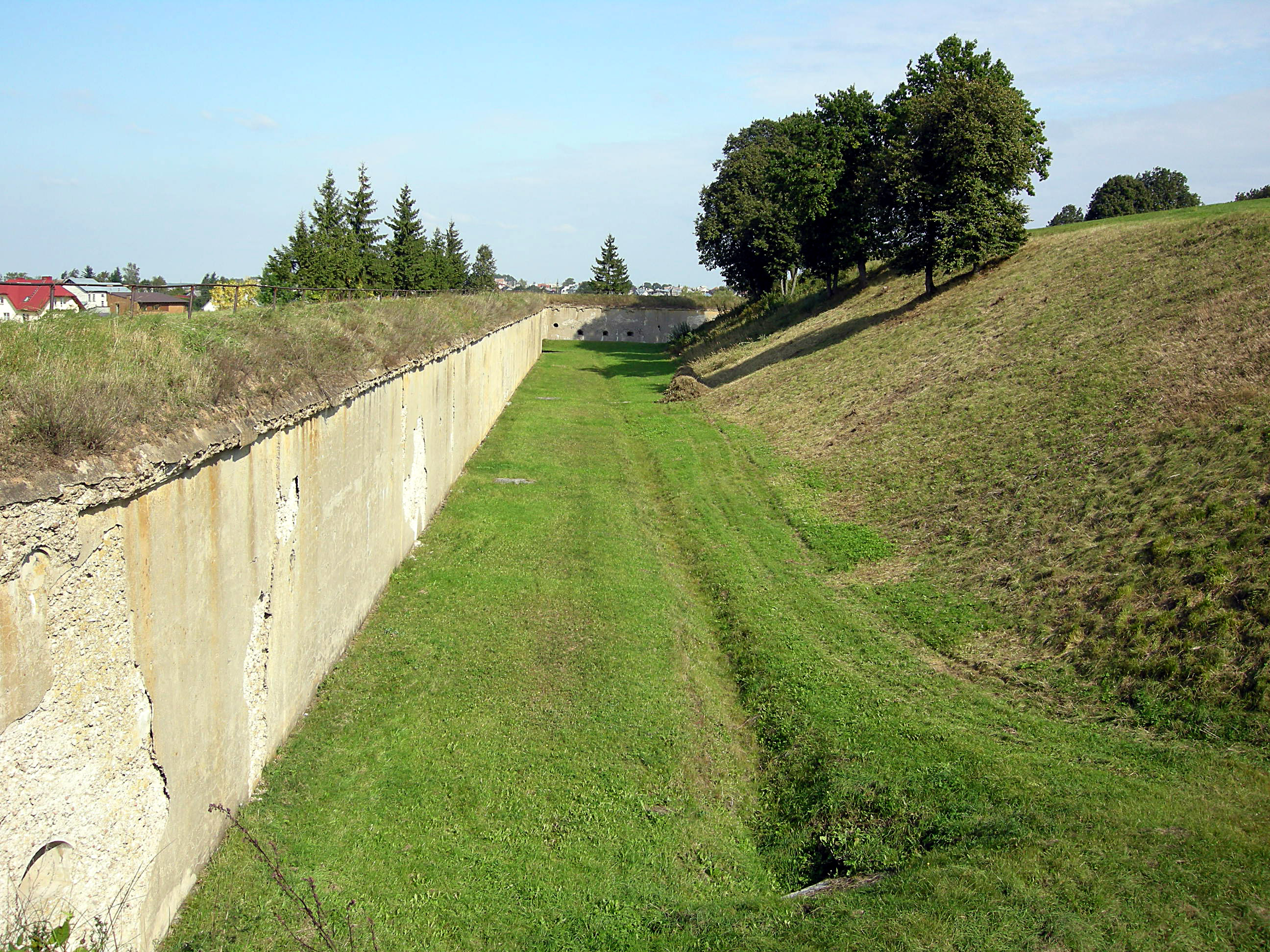 Ninth Fort, part of the Kaunas Fortress.